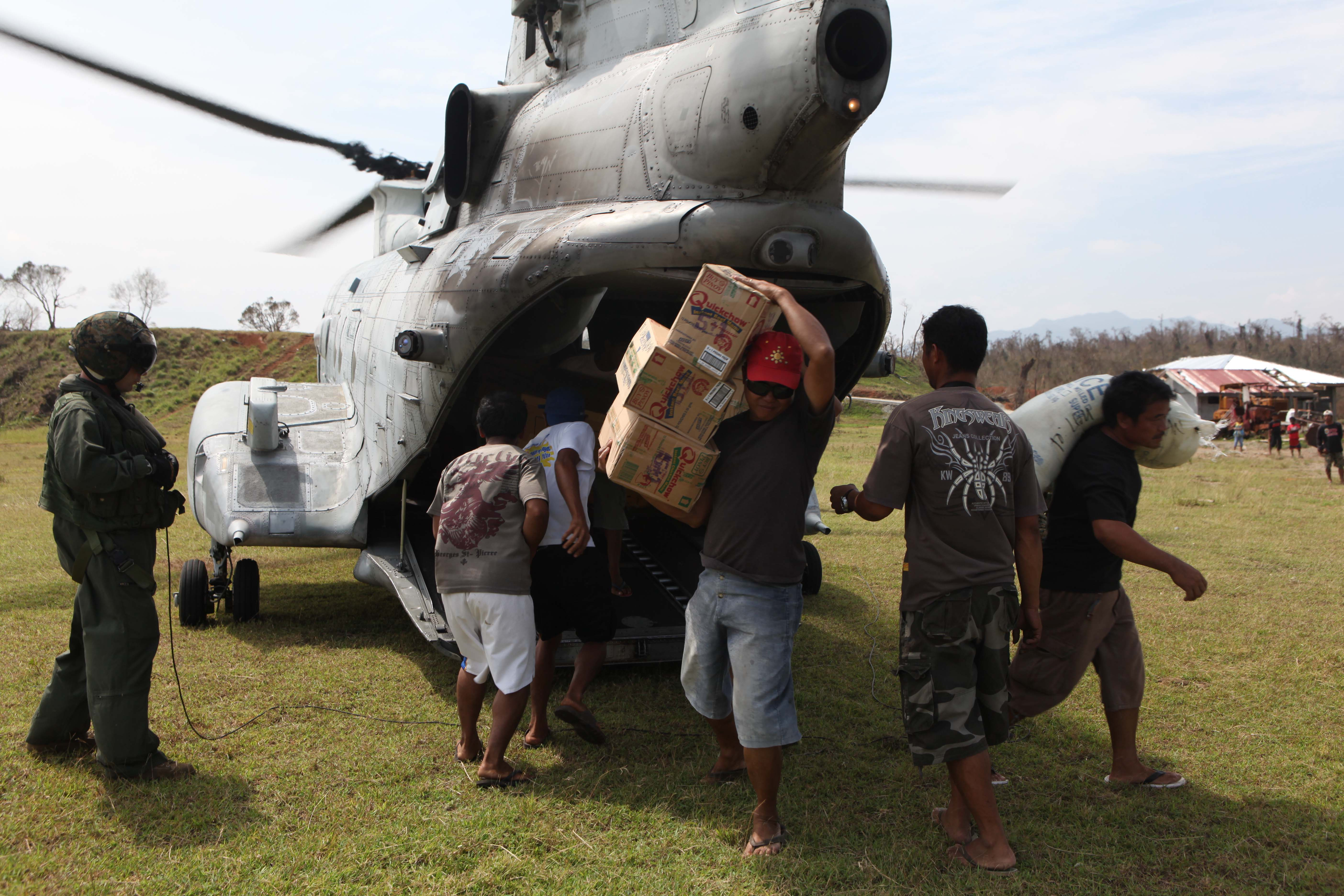 Victims of Super Typhoon Megi unload humanitarian aid supplies from a U.S. Marine Corps CH-46 Sea Knight helicopter in Divilacan, Isabela province, Philippines, on Oct. 22, 2010. U.S. and Filipino military personnel conducted initial recovery assistance in the areas affected by the typhoon.